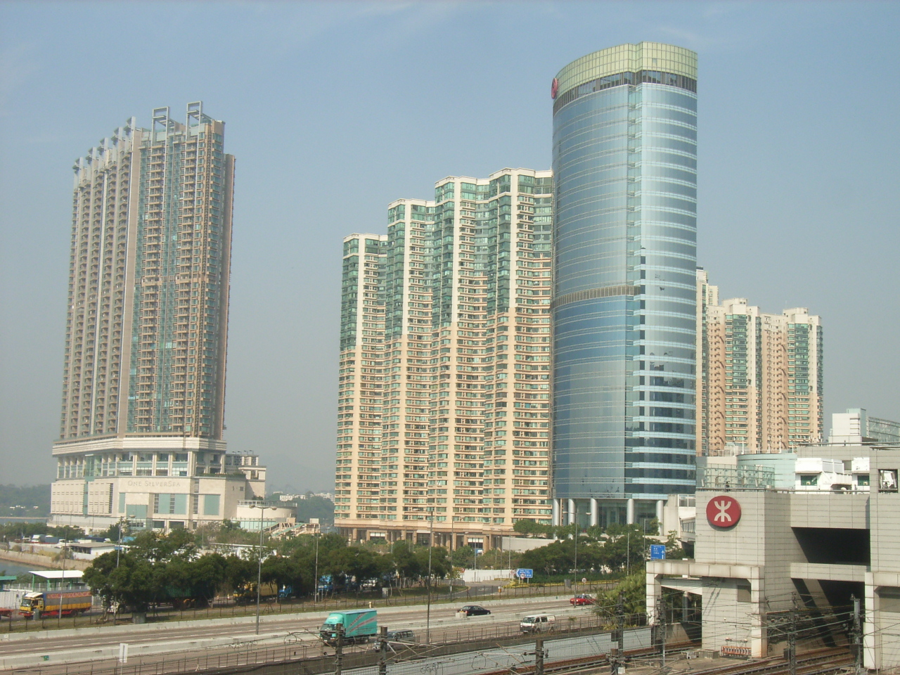 中銀中心 (Bank of China Centre)，是位於zh:香港zh:西九龍zh:大角咀的zh:奧海城一期的zh:寫字樓。 From left to right: One Silver Sea, Island Harbourview, Bank of China Centre, Olympic Station Photo by User:OLAMB